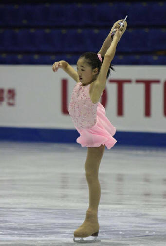 Yukiko Fujisawa (JPN) performs a spiral during her short program at the 2008-2009 Junior Grand Prix Final. She placed 7th in this segment of the competition and 2nd overall.